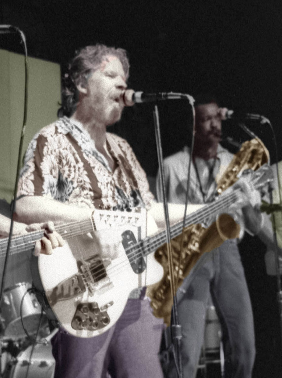 Willie Murphy performing with his band at the Southern Theater, Minneapolis, Minnesota, in 1982